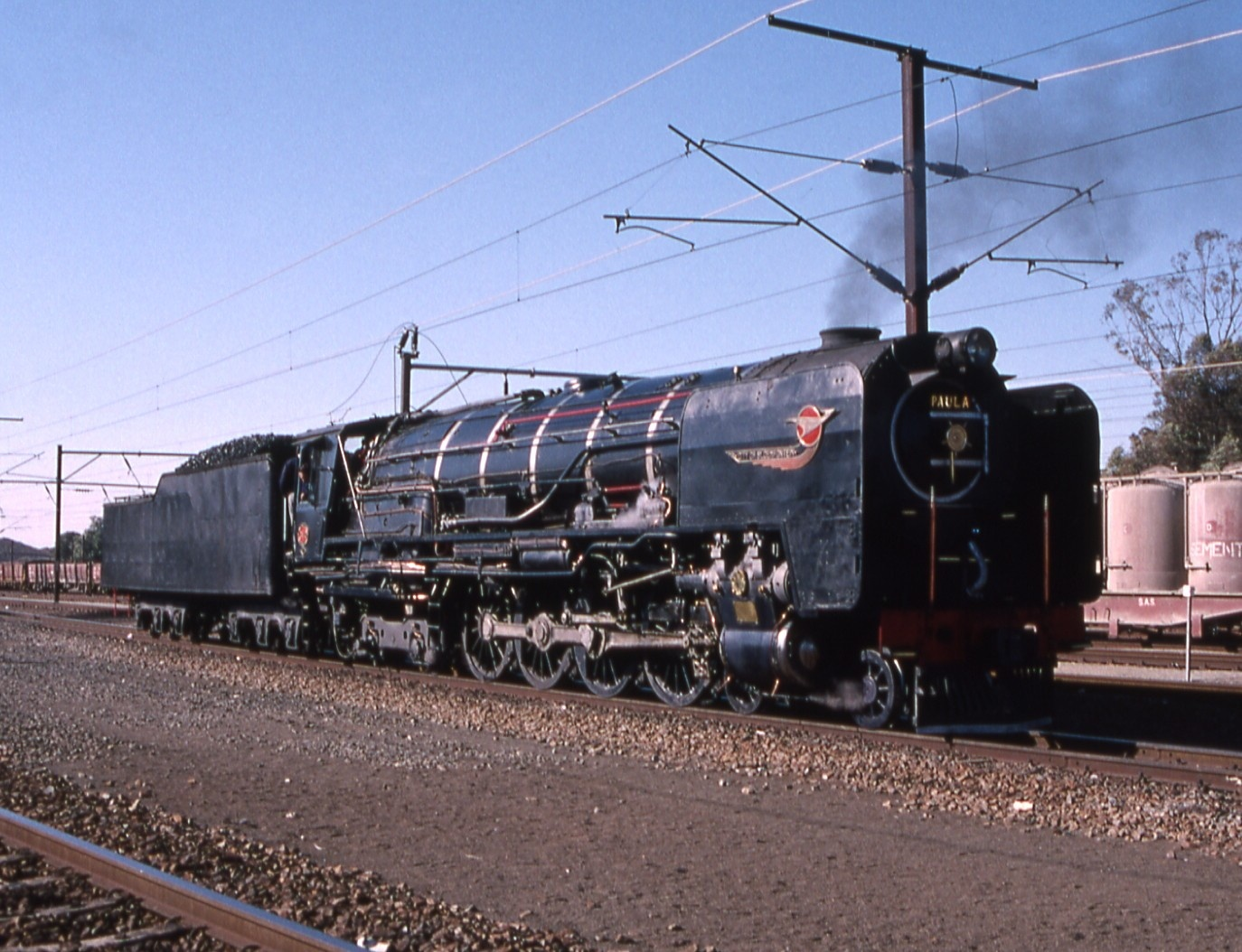 SAR Class 25NC 3410 (4-8-4) Builder's Number: NBL 27296 Location: Springfontein, Free State